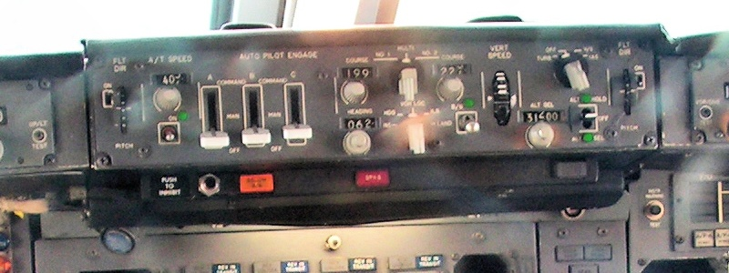 mode control Panel; cropped from Image:B747-cockpit.jpg